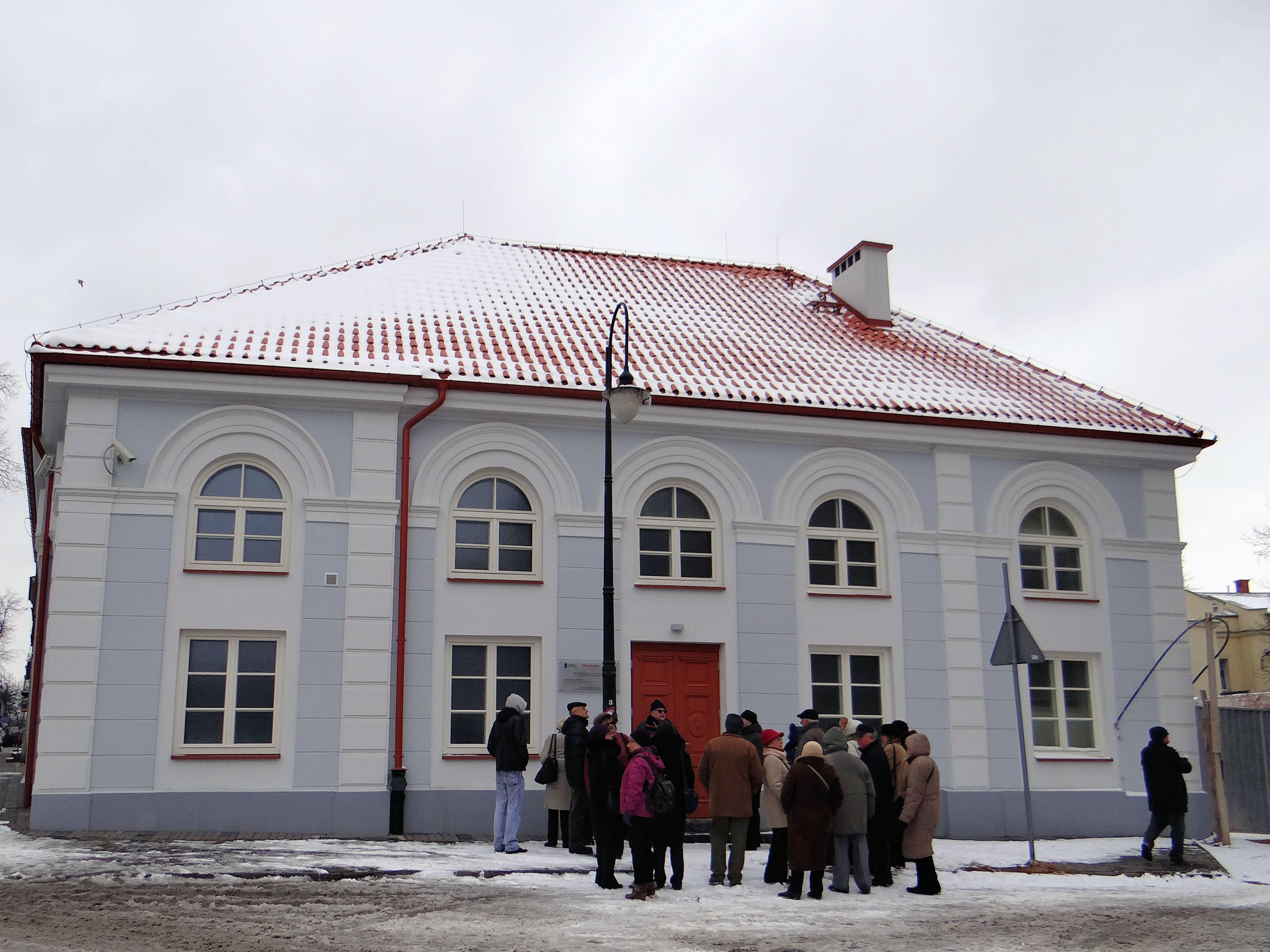 Small Synagogue in Płock